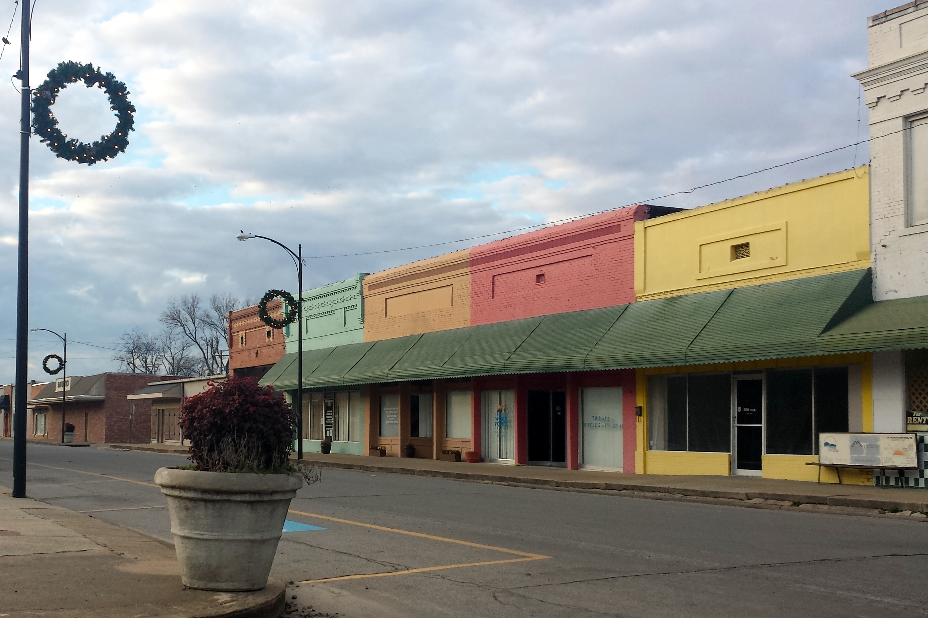 Lake Village Commercial Historic District, facing west from Cokley St